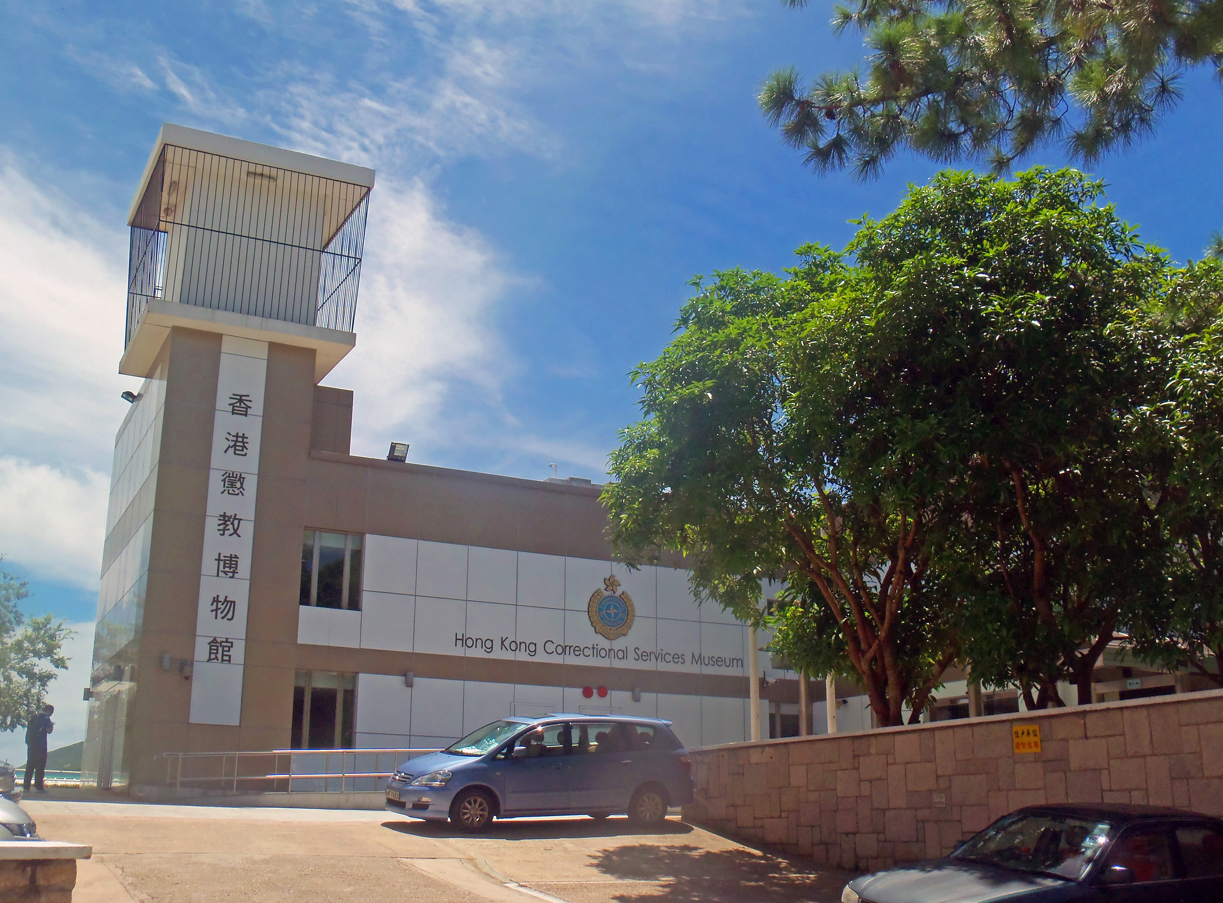 View of Hong Kong Correctional Services Museum from its driveway